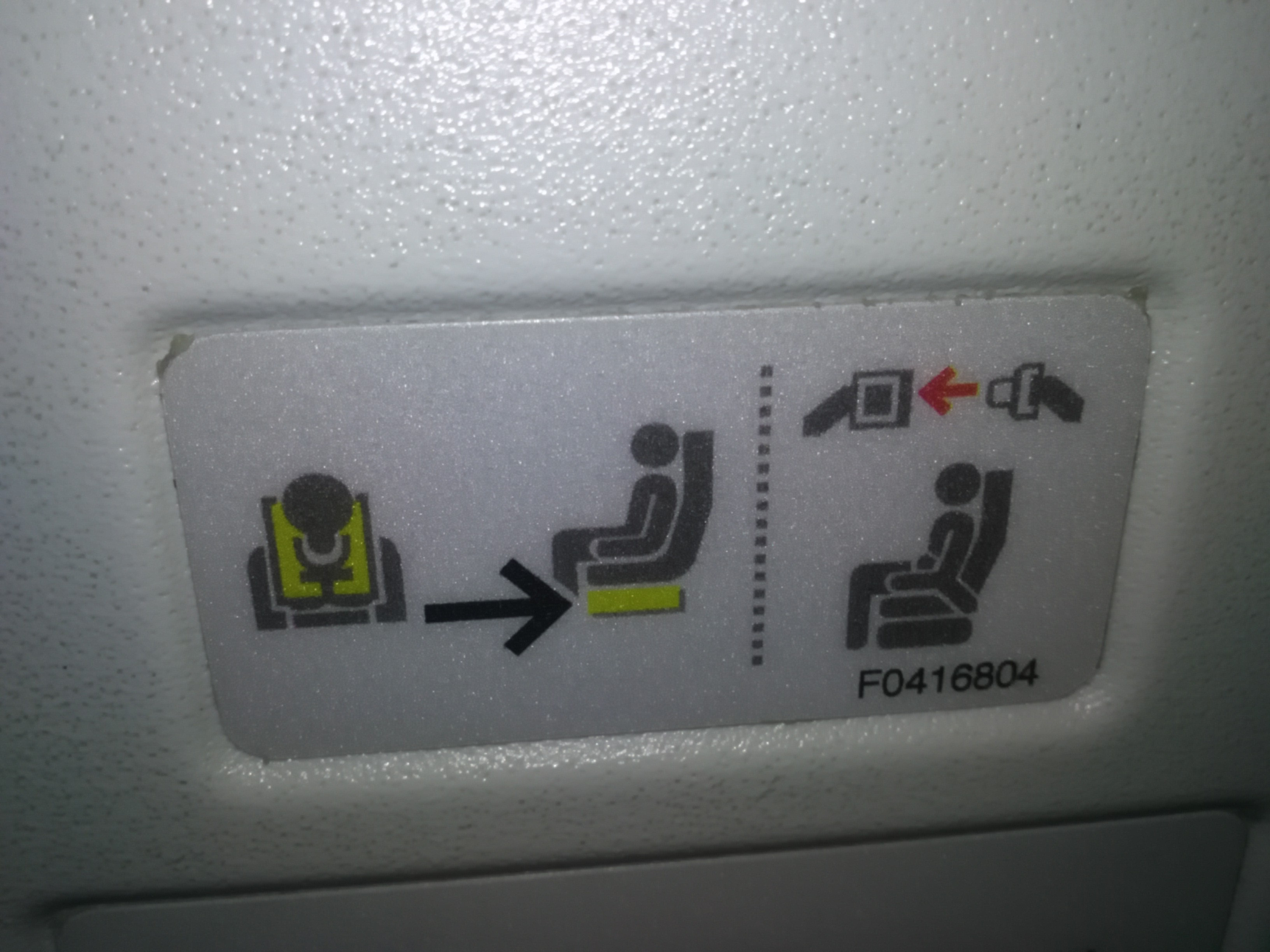 Life vest location and seat belt signs on the back of a seat of an All Nippon Airways B767 (Chengdu to Tokyo Narita)